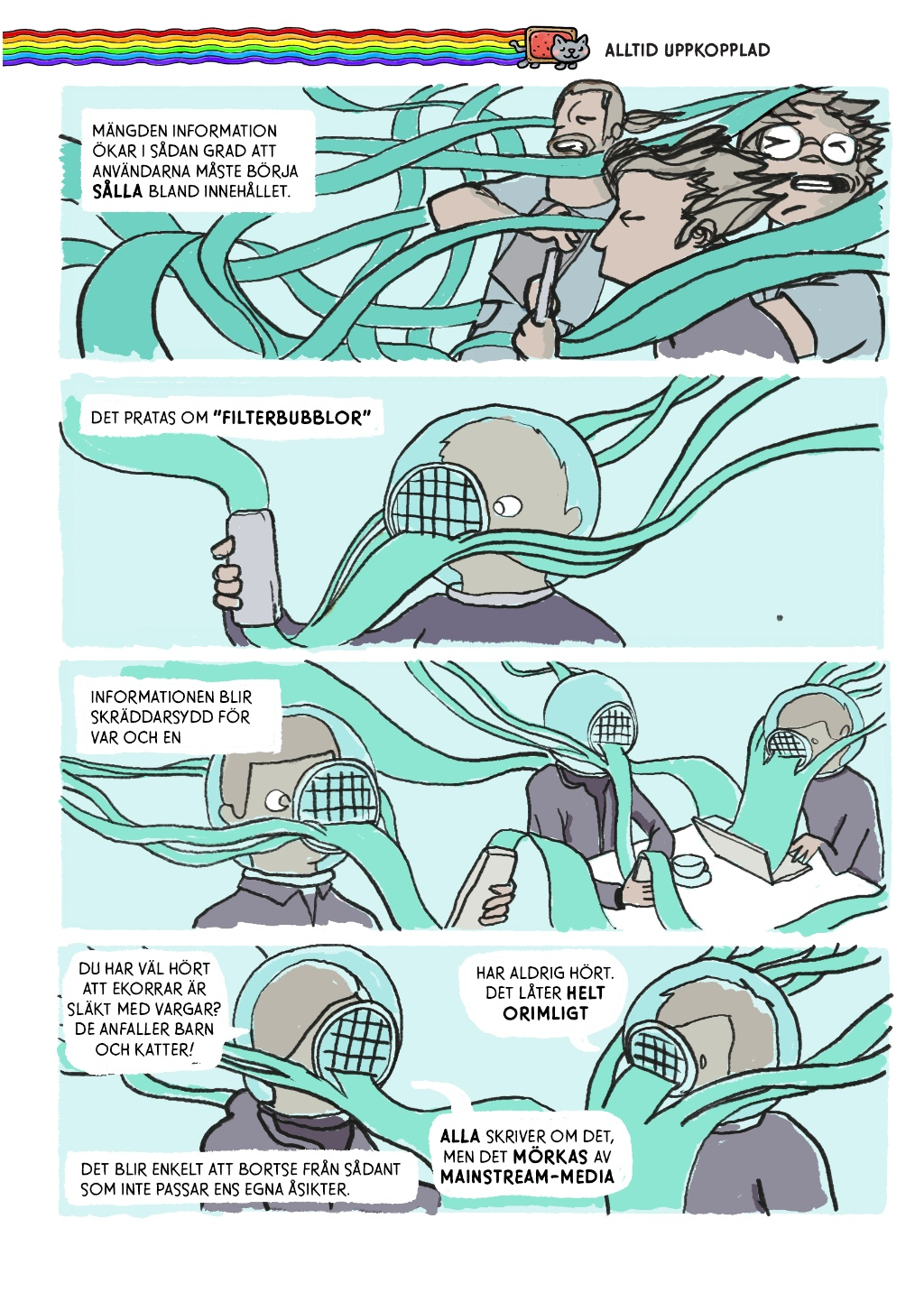 The illustrated history of Internet. A comic created for children and youths illustrated by Jesper Wallerborg for Internetmuseum.